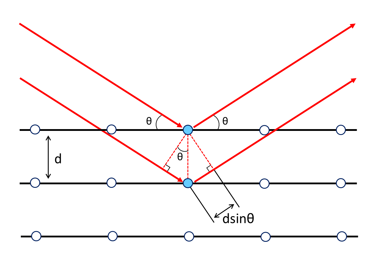 Illustration of the bragg diffraction.